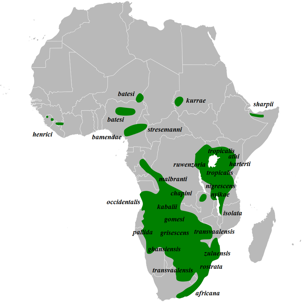 Map showing the races of Rufous-naped lark. The Clements checklist distinguishes its major taxa as follows: Rufous-naped Lark (Somali) Mirafra africana sharpii Rufous-naped Lark (Sudan) Mirafra africana kurrae Rufous-naped Lark (Bamenda) Mirafra africana stresemanni/bamendae Rufous-naped Lark (Rufous-naped) Mirafra africana [africana Group] Rufous-naped Lark (Serengeti) Mirafra africana tropicalis Rufous-naped Lark (Blackish) Mirafra africana nigrescens/nyikae Rufous-naped Lark (Malbrant’s) Mirafra africana malbranti Merged races: M. a. dohertyi Hartert, 1907 with M. a. athi, M. a. okahandjae White, 1945 with M. a. pallida, and M. a. anchietae da Rosa Pinto, 1967 with M. a. occidentalis